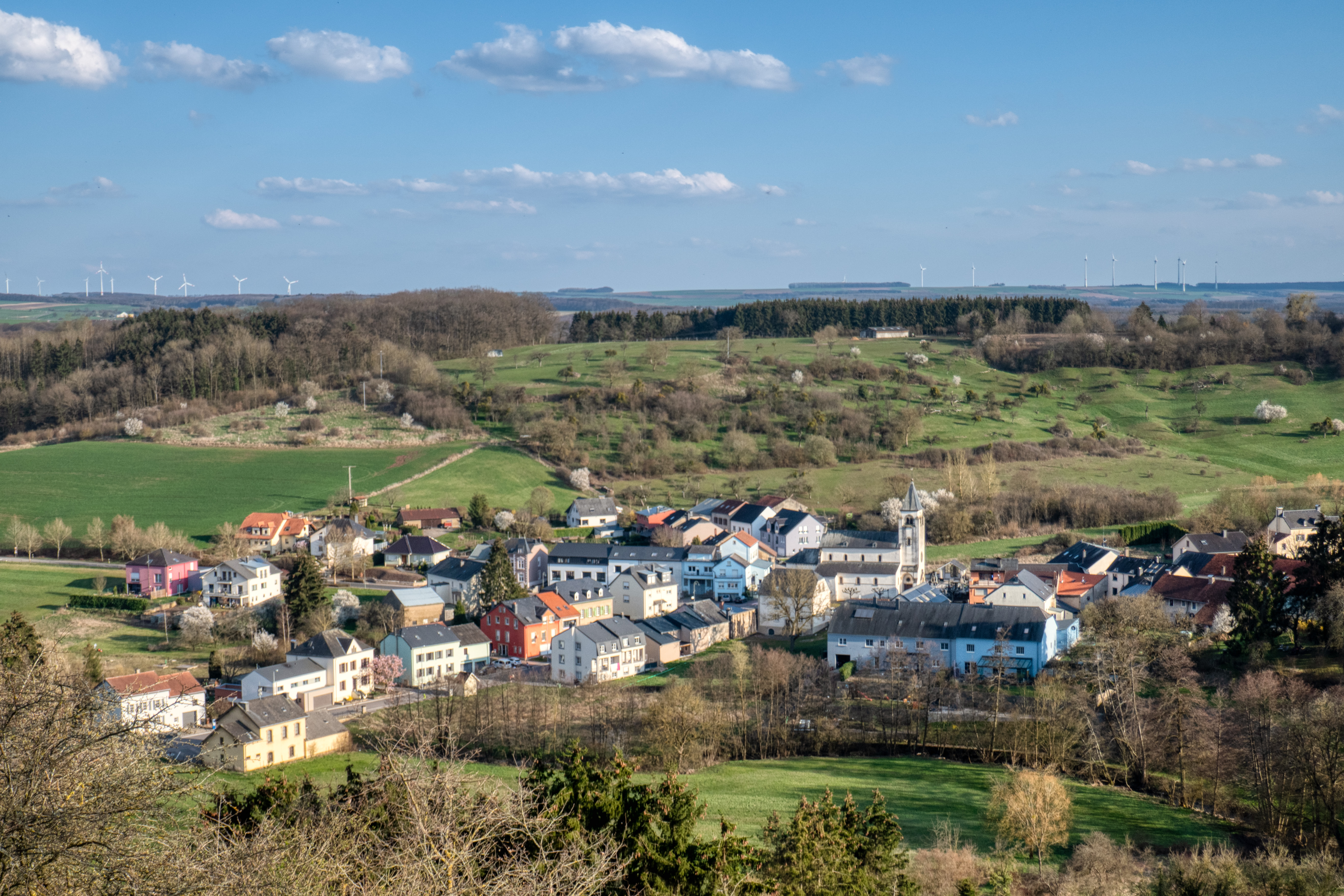 View of Lenningen (Luxembourg)